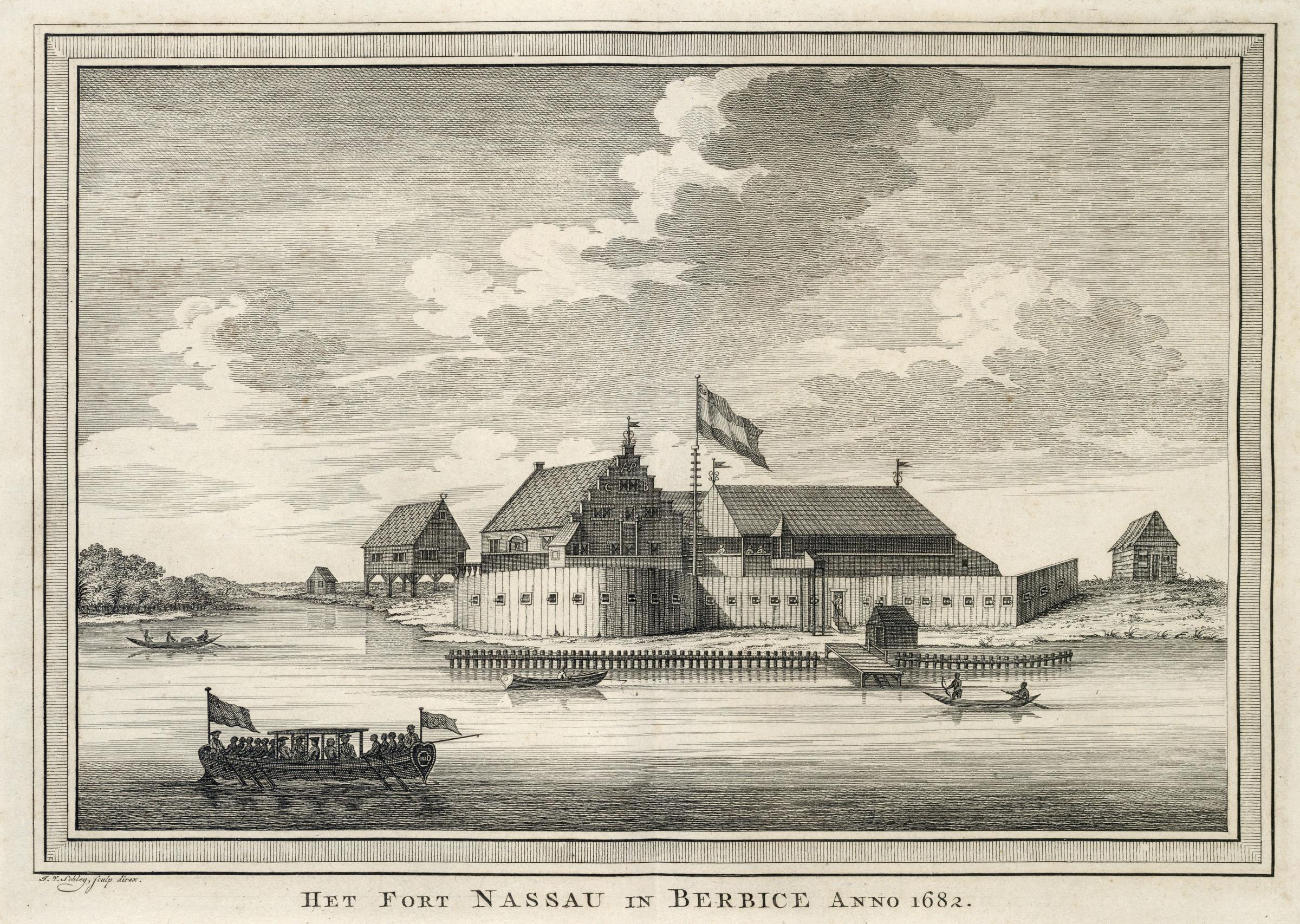 View of the fort of Nassau in Berbice. Het Fort Nassau in Berbice Anno 1682.